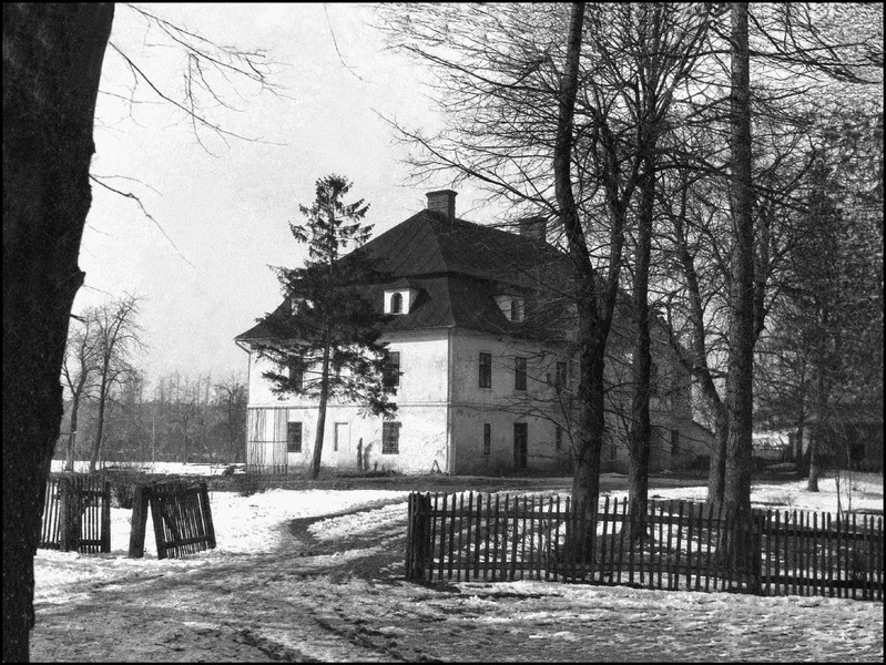 Kossak family Manor, bought by Tadeusz Kossak (1857 - 1935), residence of generations of Polish artists, burned to the ground in 1945